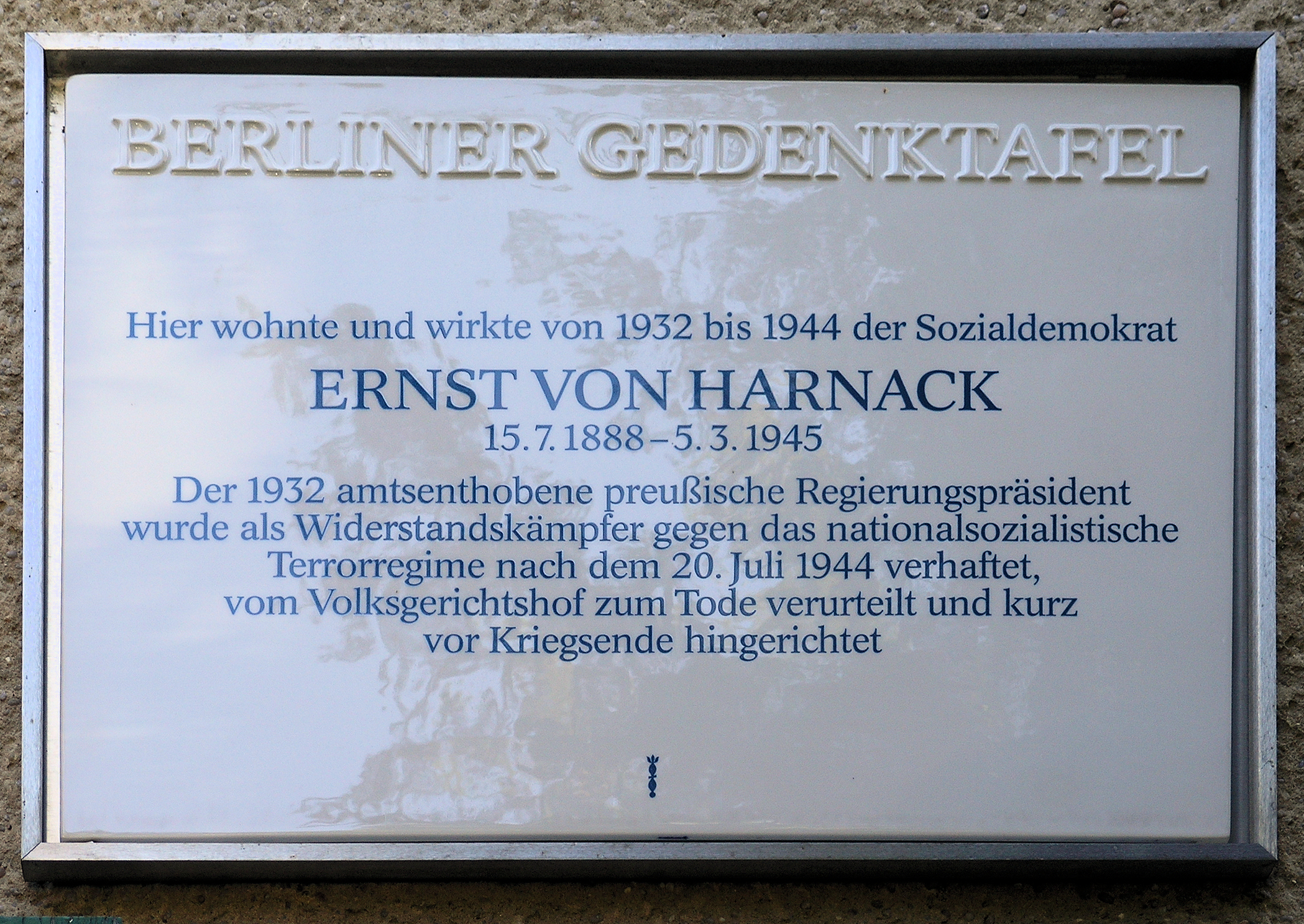 Berlin memorial plaque, Ernst von Harnack, Am Fischtal 8, Berlin-Zehlendorf, Germany